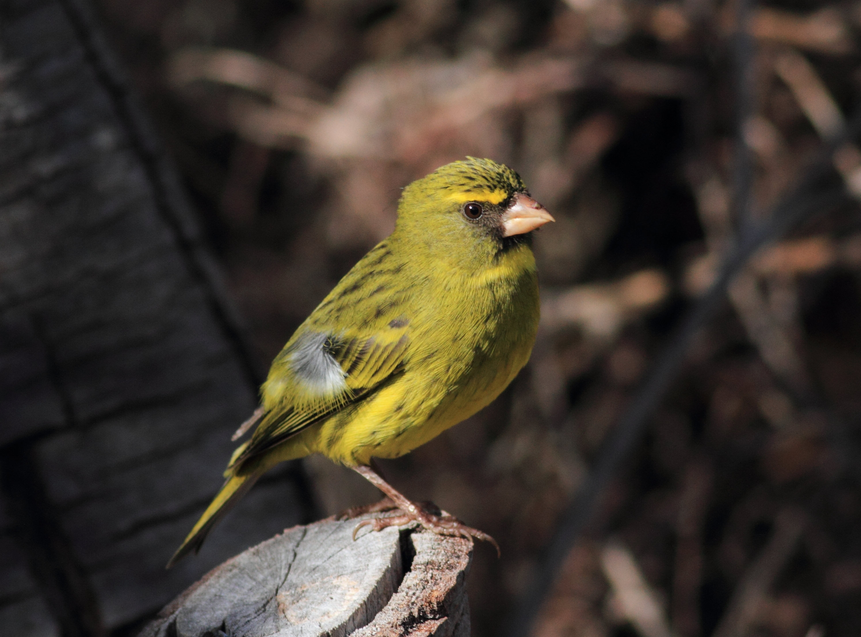 Forest Canary Crithagra scotops, Kirstenbosch, South Africa